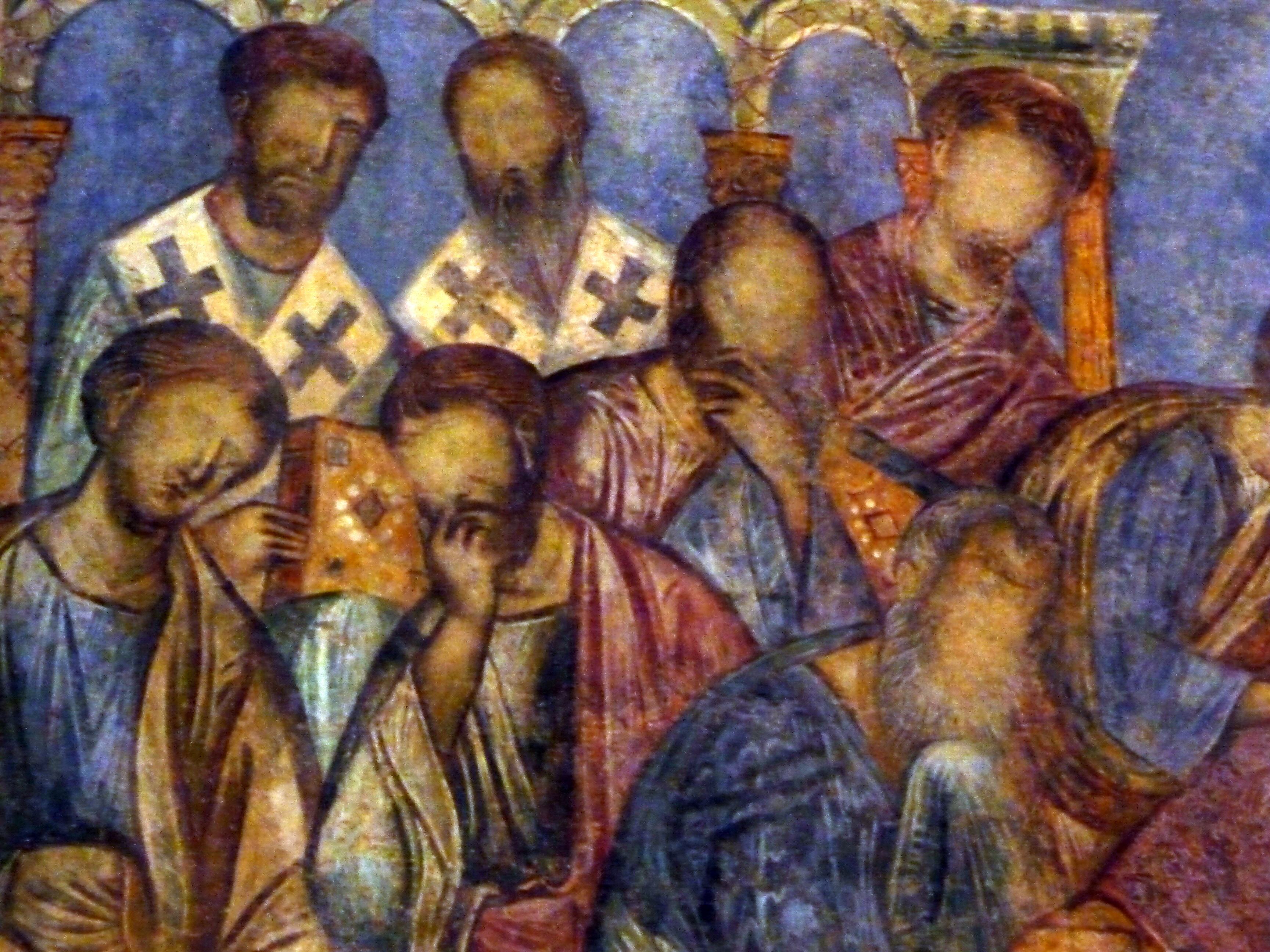 Details of frescoes in the crusader's church, Abu Gosh